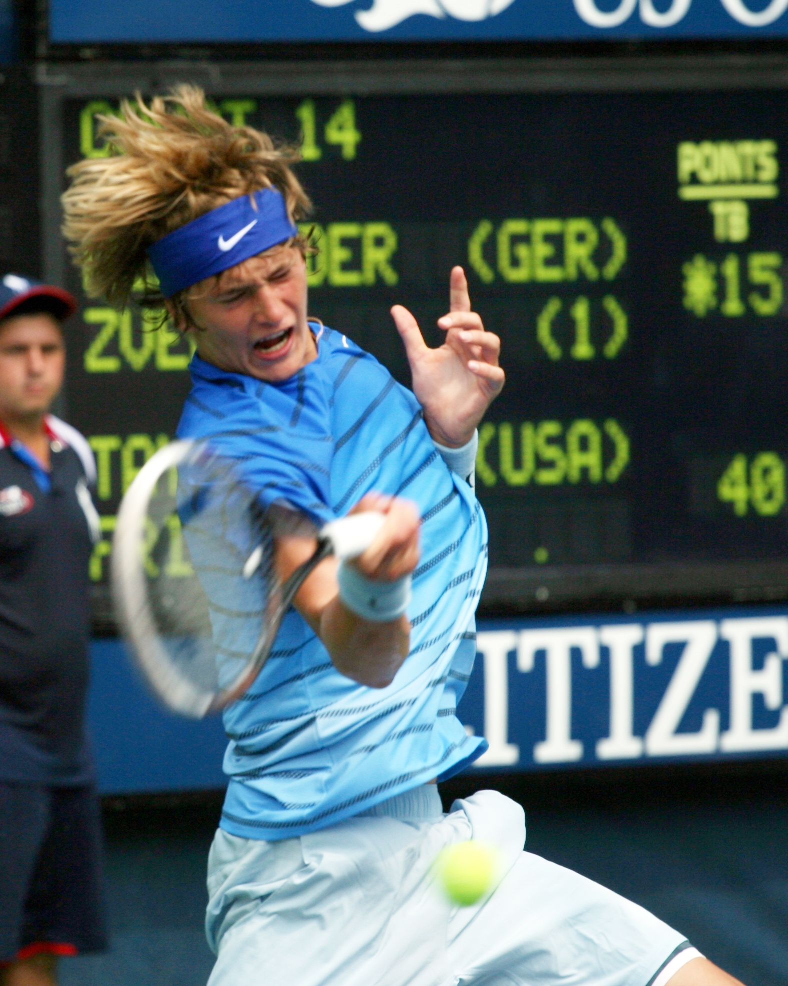 U.S. Open Juniors Monday, Sept. 2, 2013